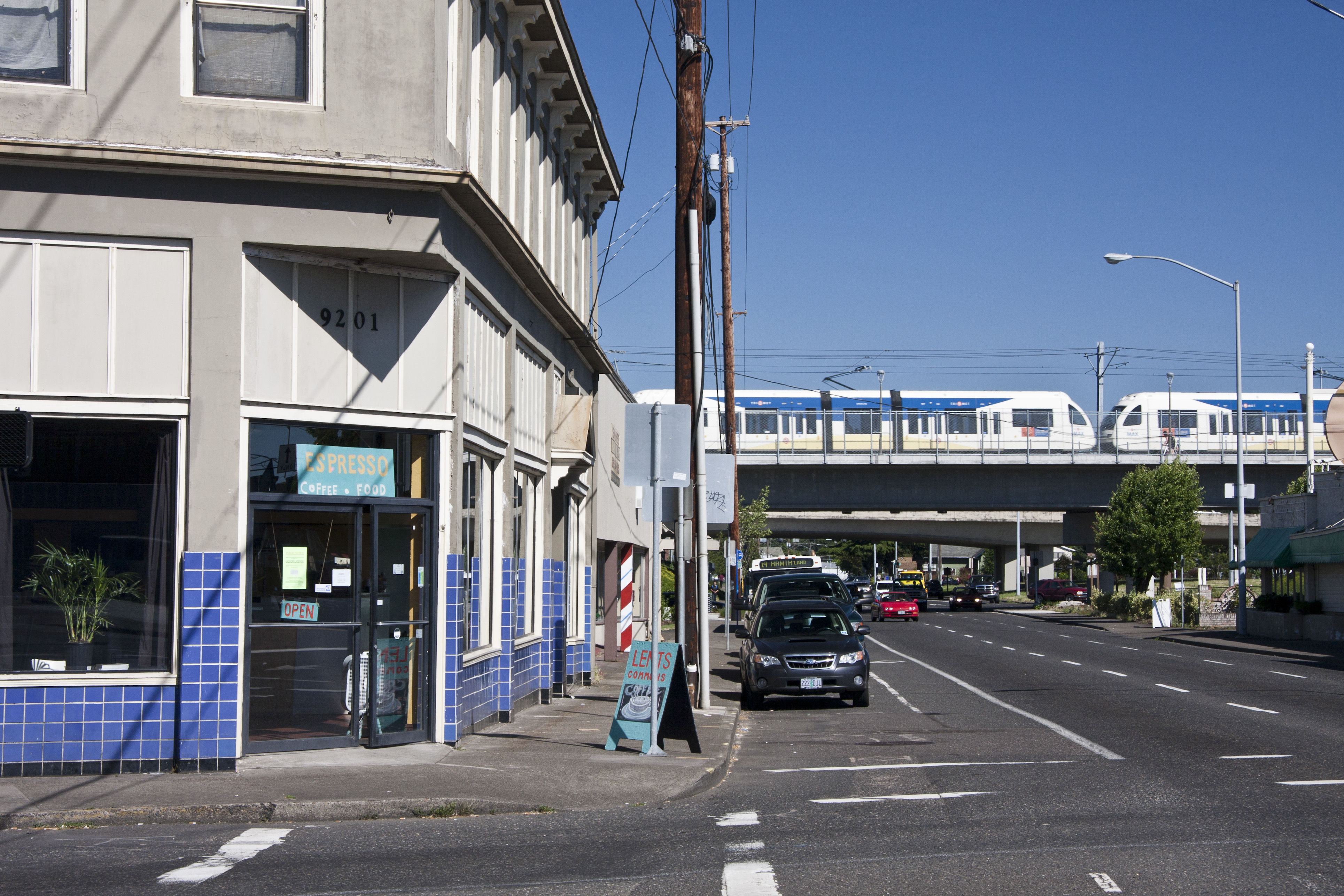 View of Foster Blvd., looking east towards the overpasses carrying acing I-205 and TriMet's MAX Green Line